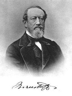 Portrait of Count Albrecht von Bernstorff, from the book m Kampfe für Preussens Ehre: aus dem Nachlass des Grafen Albrecht v. Bernstorff, Staatsministers und kaiserlich deutschen ausserordentlichen und bevollmächtigten Botschafters in London und seiner Gemahlin Anna geb. Freiin v. Koenneritz. Berlin: E. S. Mittler 1906